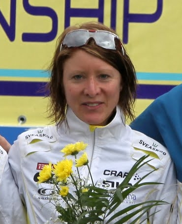 Lena Eliasson at European Orienteering Championships 2010